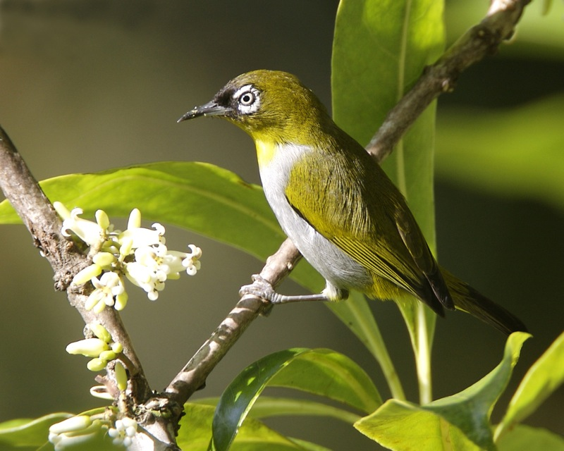 Black-capped White-eye Zosterops atricapilla Nominate race, Zosterops atricapilla atricapilla Kinabalu Park, Sabah, East Malaysia 6th. June 2009 Distribution: {map not accurate, should be limited to Borneo (including Sabah and Sarawak), Sumatra and Java} 690V7024